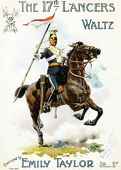 17th Lancers Waltz, 1905 music sheet cover to celebrate the cavalry regiment that took part in the Charge of the Light Brigade.